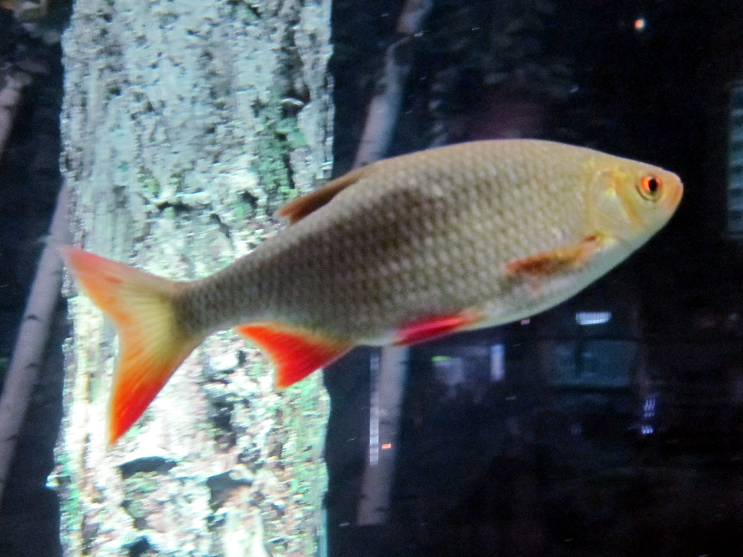 Common rudd (Scardinius erythrophthalmus) in Saint Petersburg Oceanarium